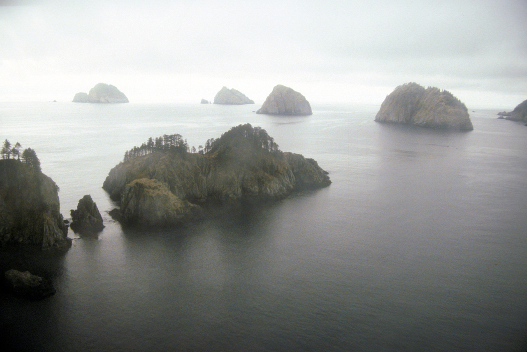 Chiswell Island Group, Gulf of Alaska, April 1989 Transferred from en.wikipedia (Original text : 21:40, 30 November 2009 (UTC) (original upload date) Original uploader was Mattisse at en.wikipedia